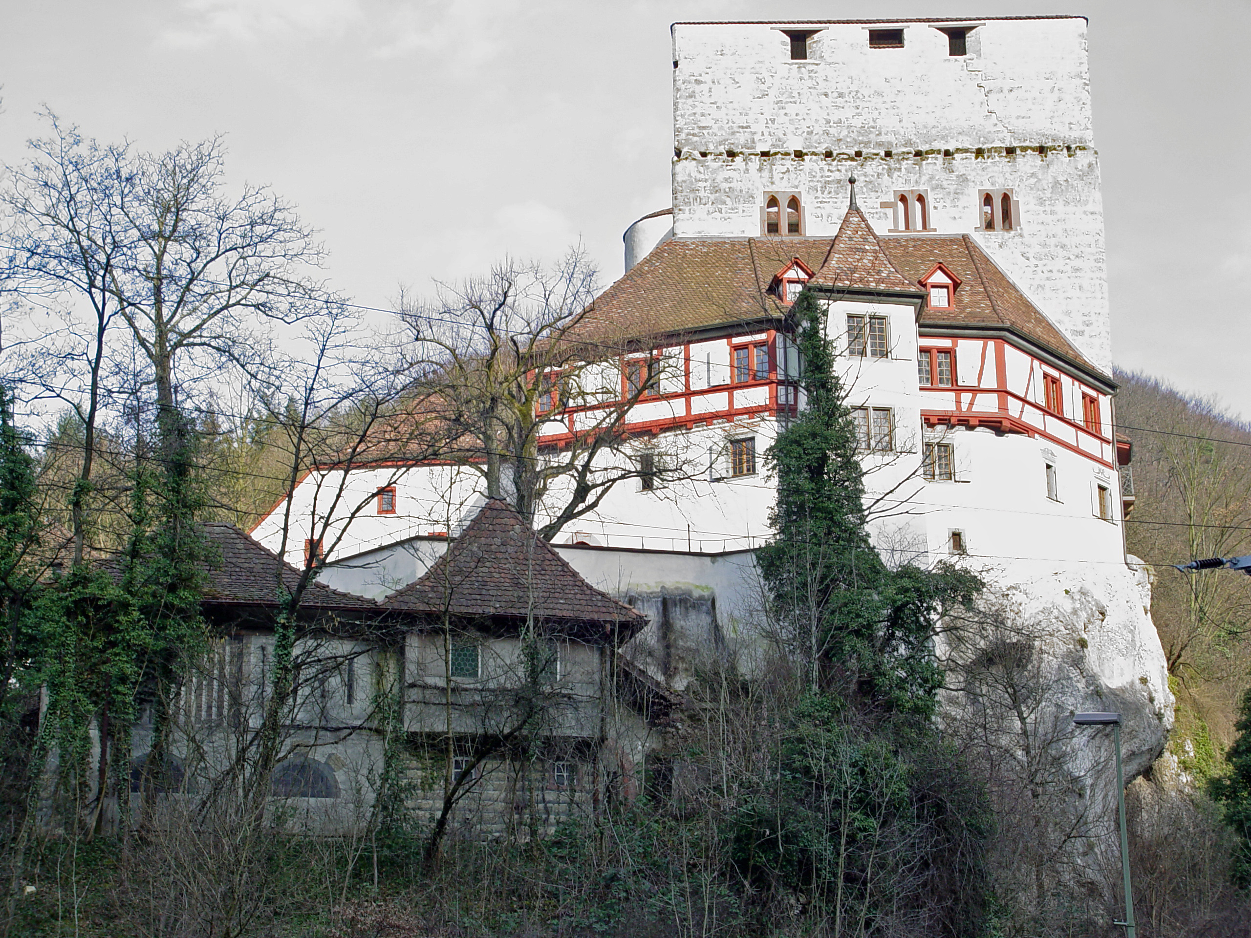 Castle Angenstein (between Aesch and Grellingen, near Basel)